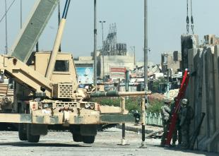 Soldiers from Company C, 1-68 Combined Arms Battalion, 3rd Brigade Combat Team, 4th Infantry Division set concrete barriers in place in the surroundings of the southern portion of the Sadr City district of Baghdad May 3. (US Army photo/Specialist Joseph Rivera Rebolledo)